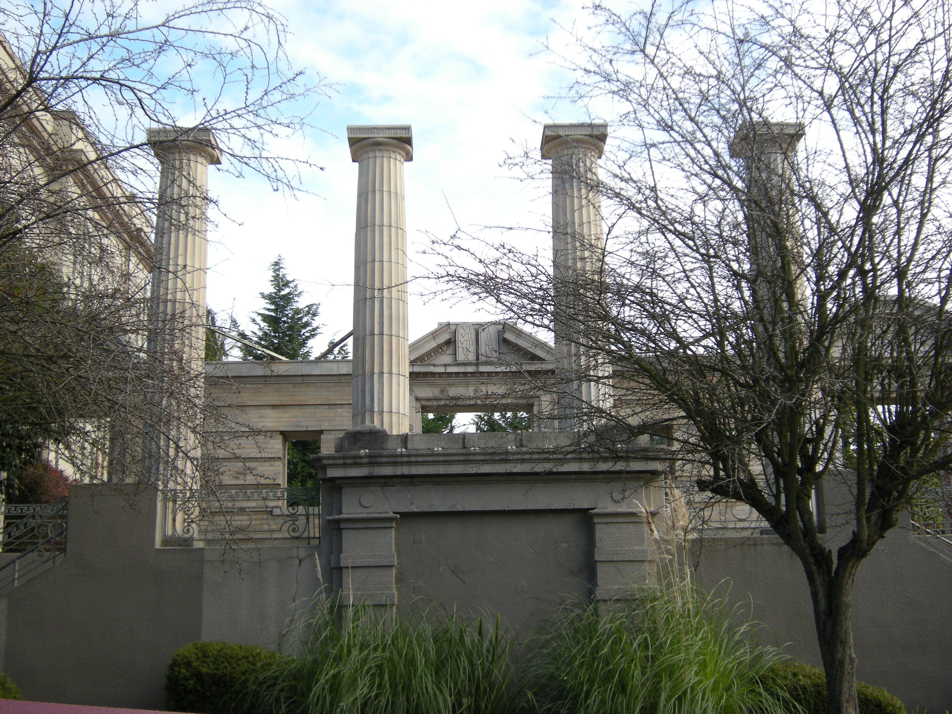 On the grounds of Temple de Hirsch Sinai, a synagogue in Seattle's First Hill/Central District area, just south of Capitol Hill. Since the 1992 demolition of the old 1907 Temple de Hirsch (which was on the National Register of Historic Places), all that remains of the old building are four columns, the front portico, and part of the front wall (including the frame of the front door and a symbolic representation of the Ten Commandments).